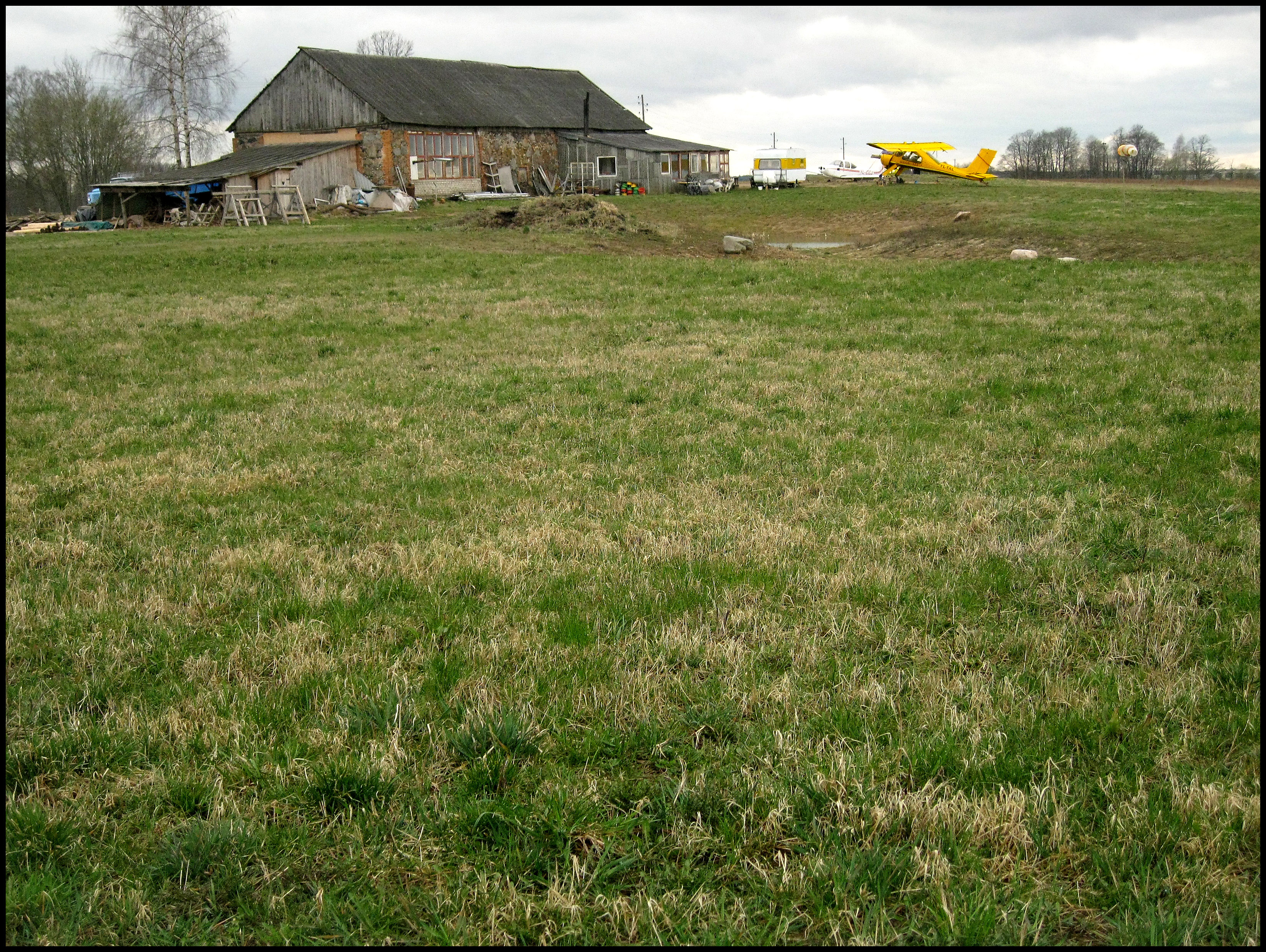 Yellow plane in the farm